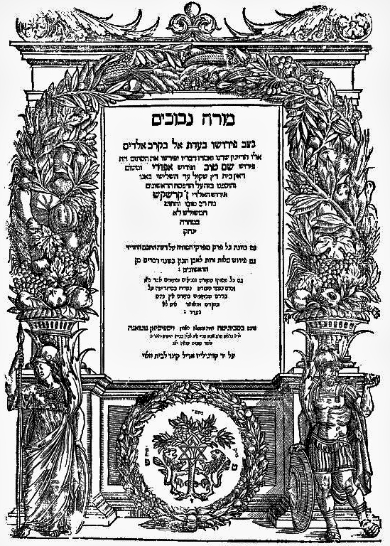 Title page Guide of the Perplexed by Maimonides